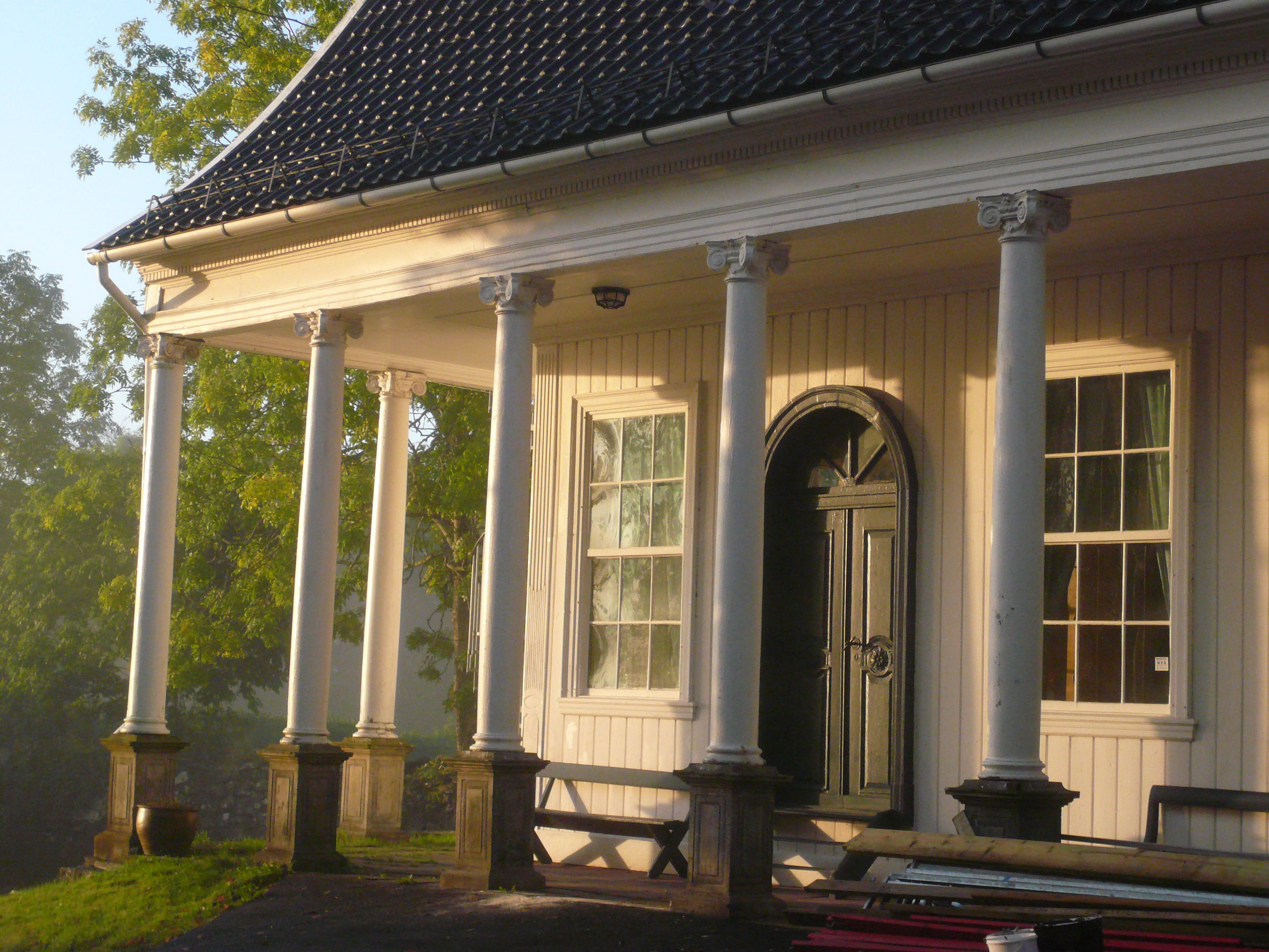 Colonnade at Thomas Erichsens Minde, Hop, Askøy, Norway (1793-1795).